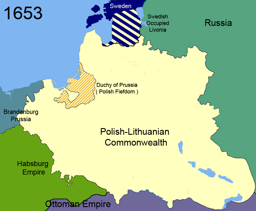 Territorial changes of Poland